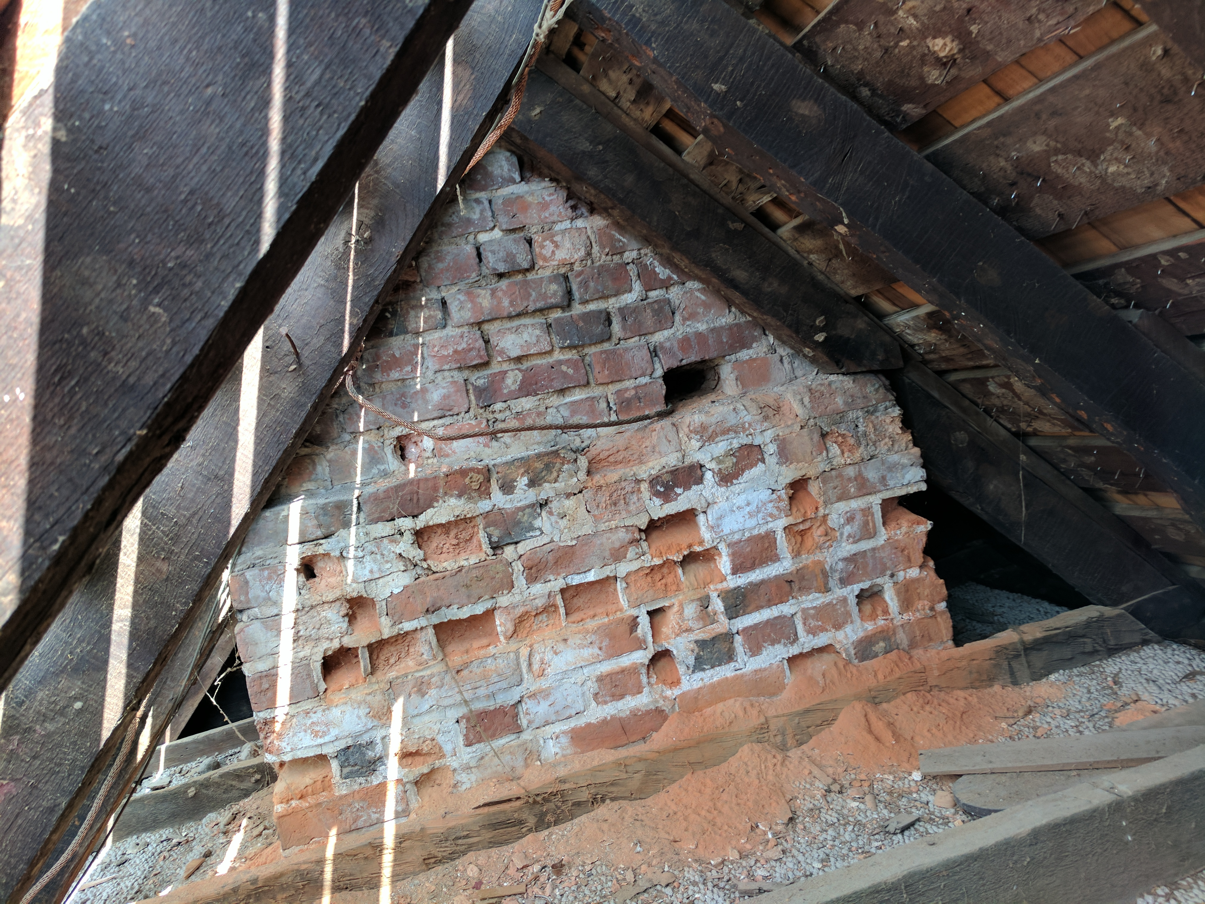 This chimney shows spalling brick in an older section of the chimney. The mortar is not deteriorating as quickly as the brick